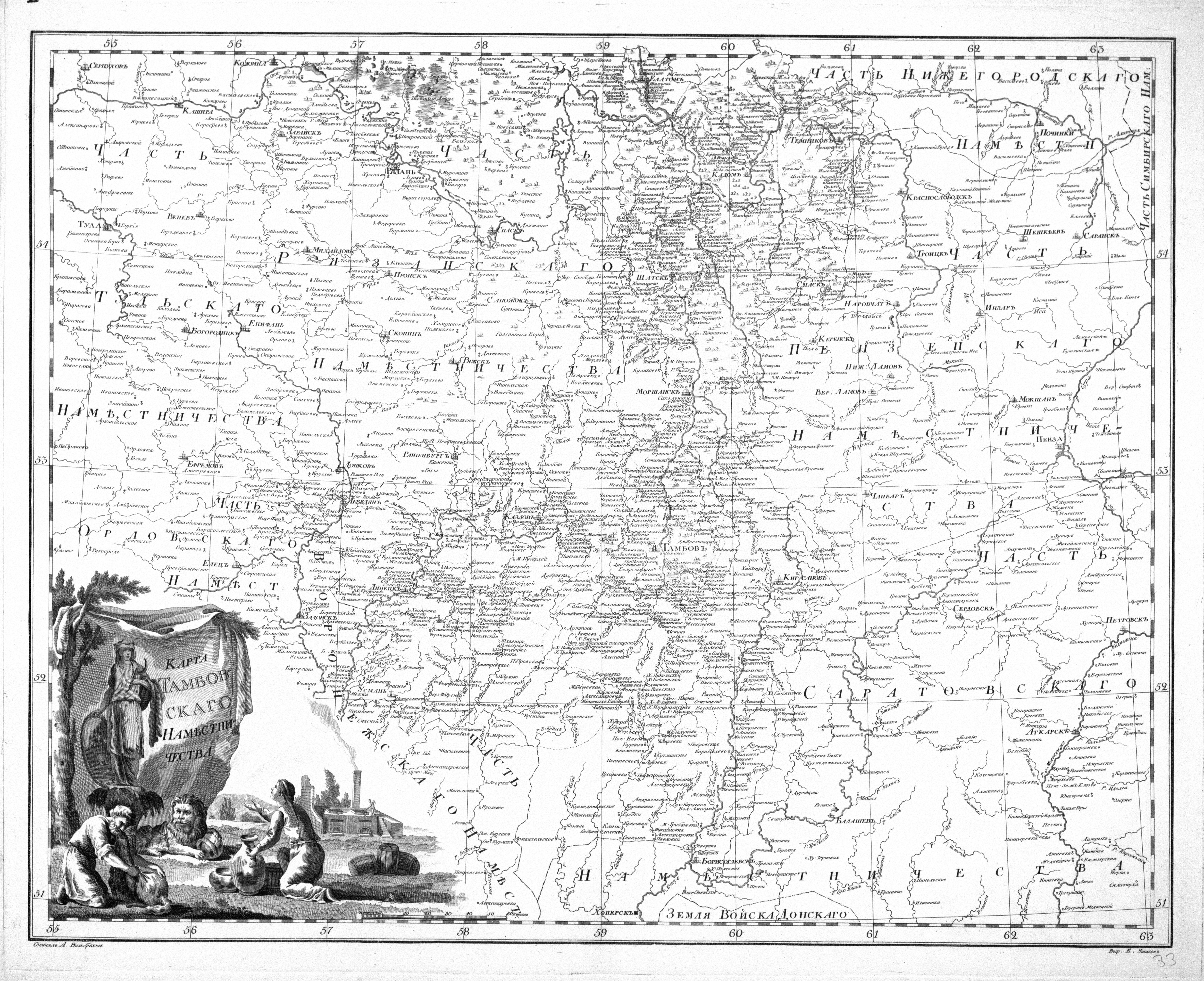 Map of Tambov Namestnichestvo (sheet 33) from official Atlas of the Russian Empire (1792).